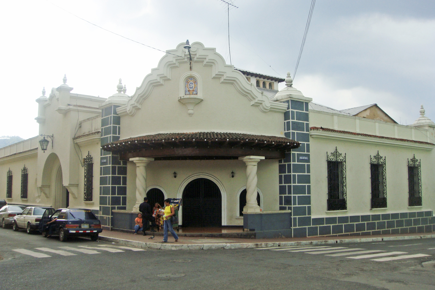 Casino santaneco, Santa Ana city, El Salvador